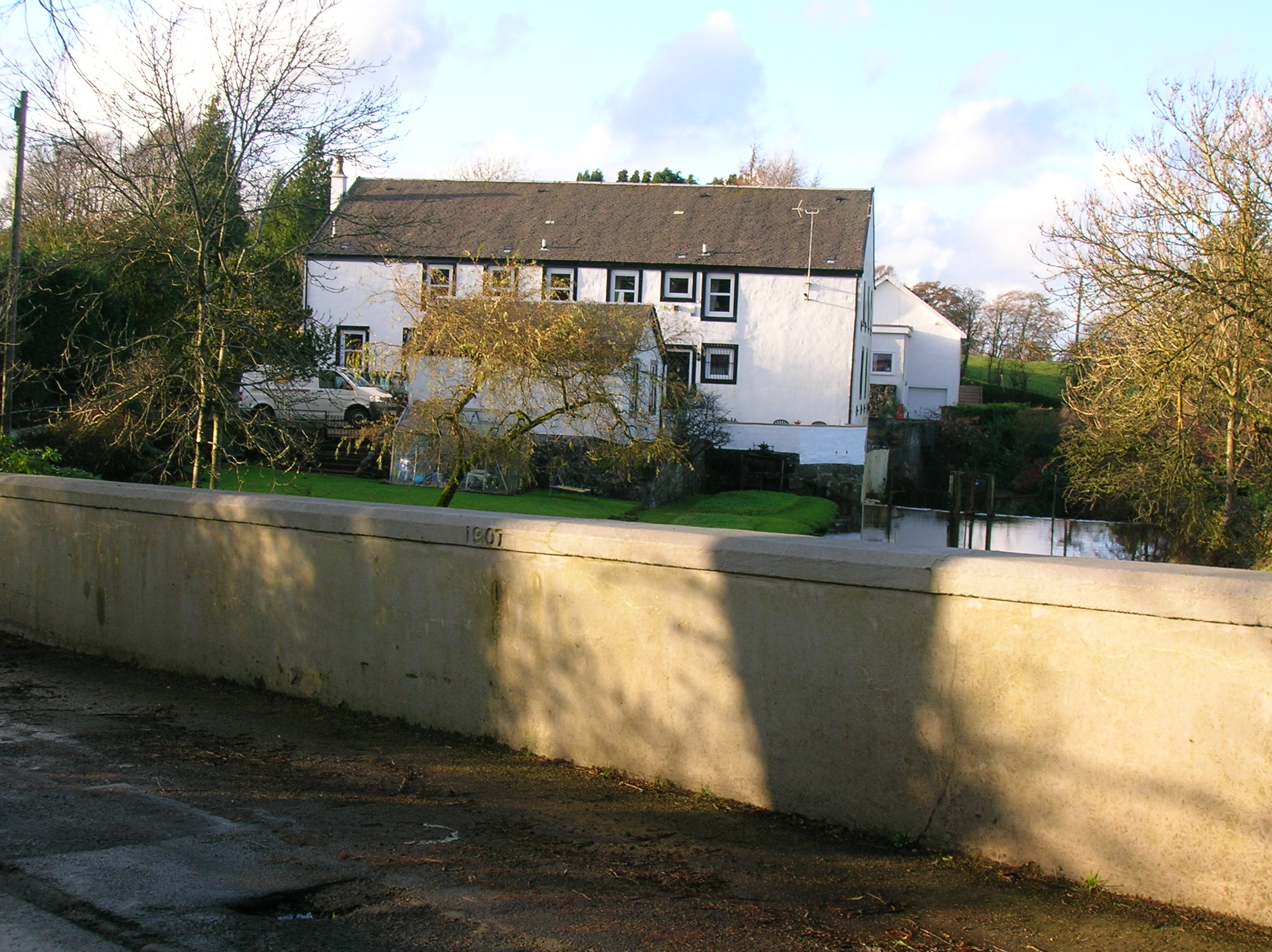 Millhall Mill and Bridge, Eaglesham, East Renfrewshire, Scotland.